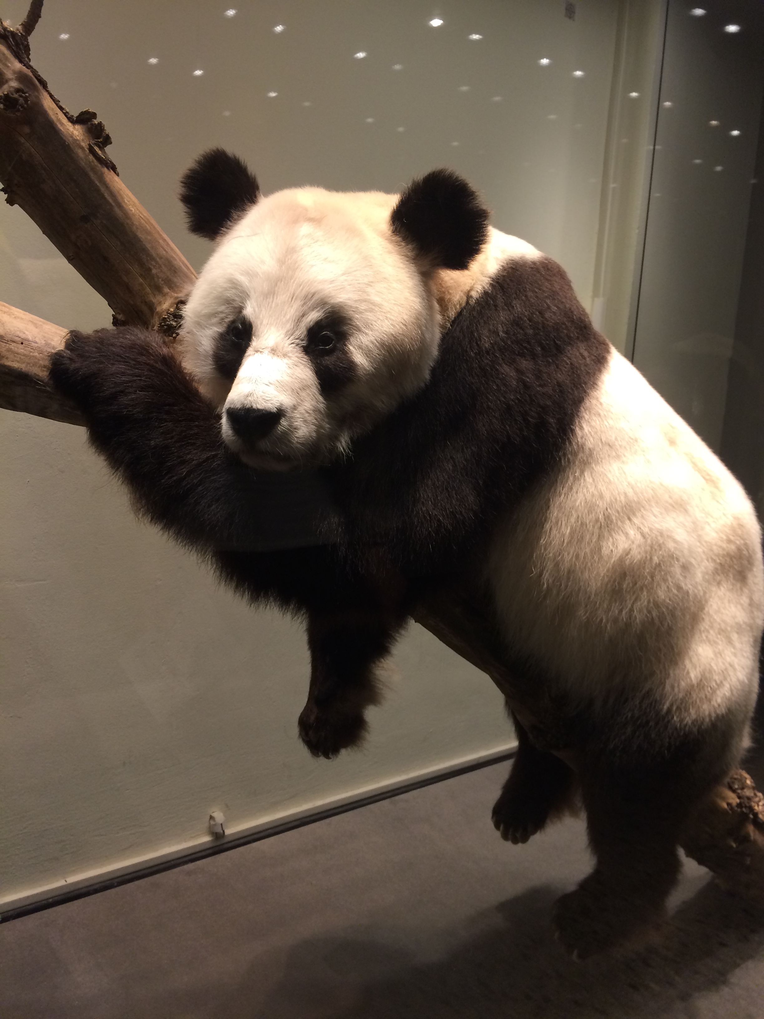 Bao Bao at the Natural History Museum Berlin